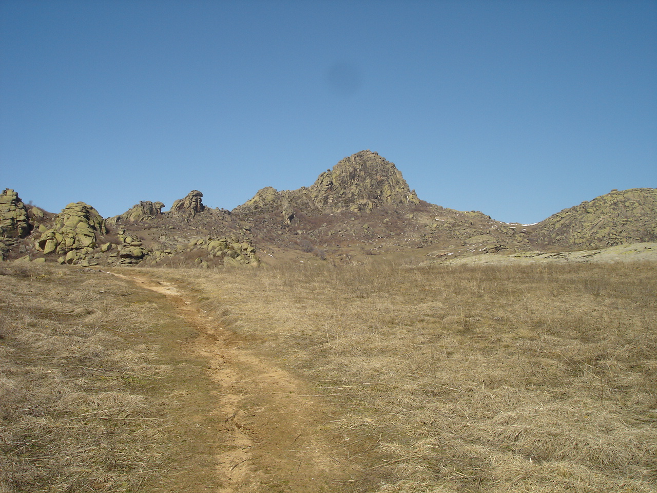 Zlatovrv peak, Macedonia